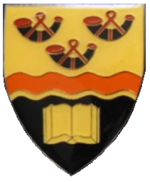 SADF era OFS University Regiment emblem